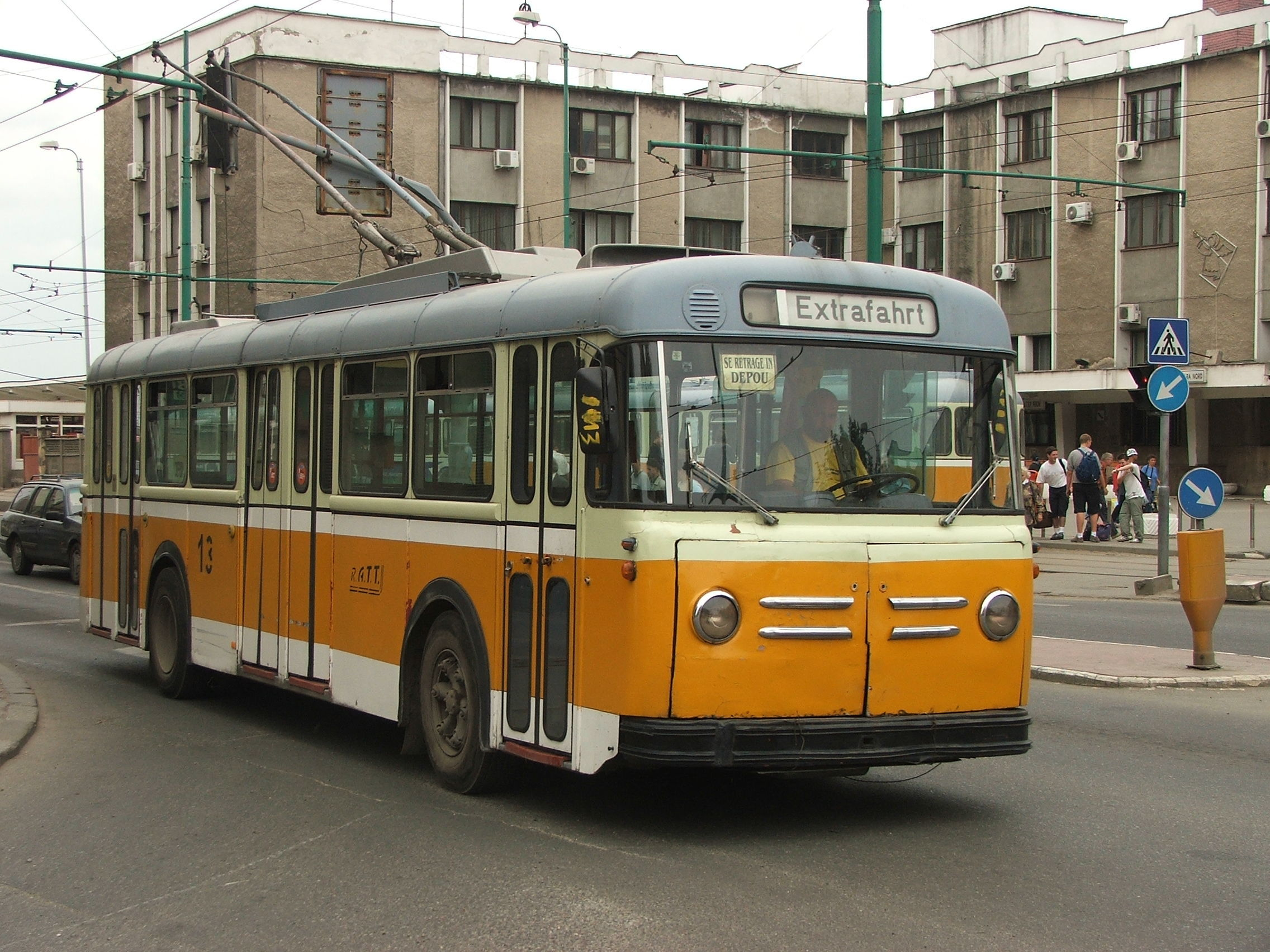 Saurer trolleybus 13 (ex-Winterthur, Switzerland 56), making a non-passenger trip in Timişoara, Romania